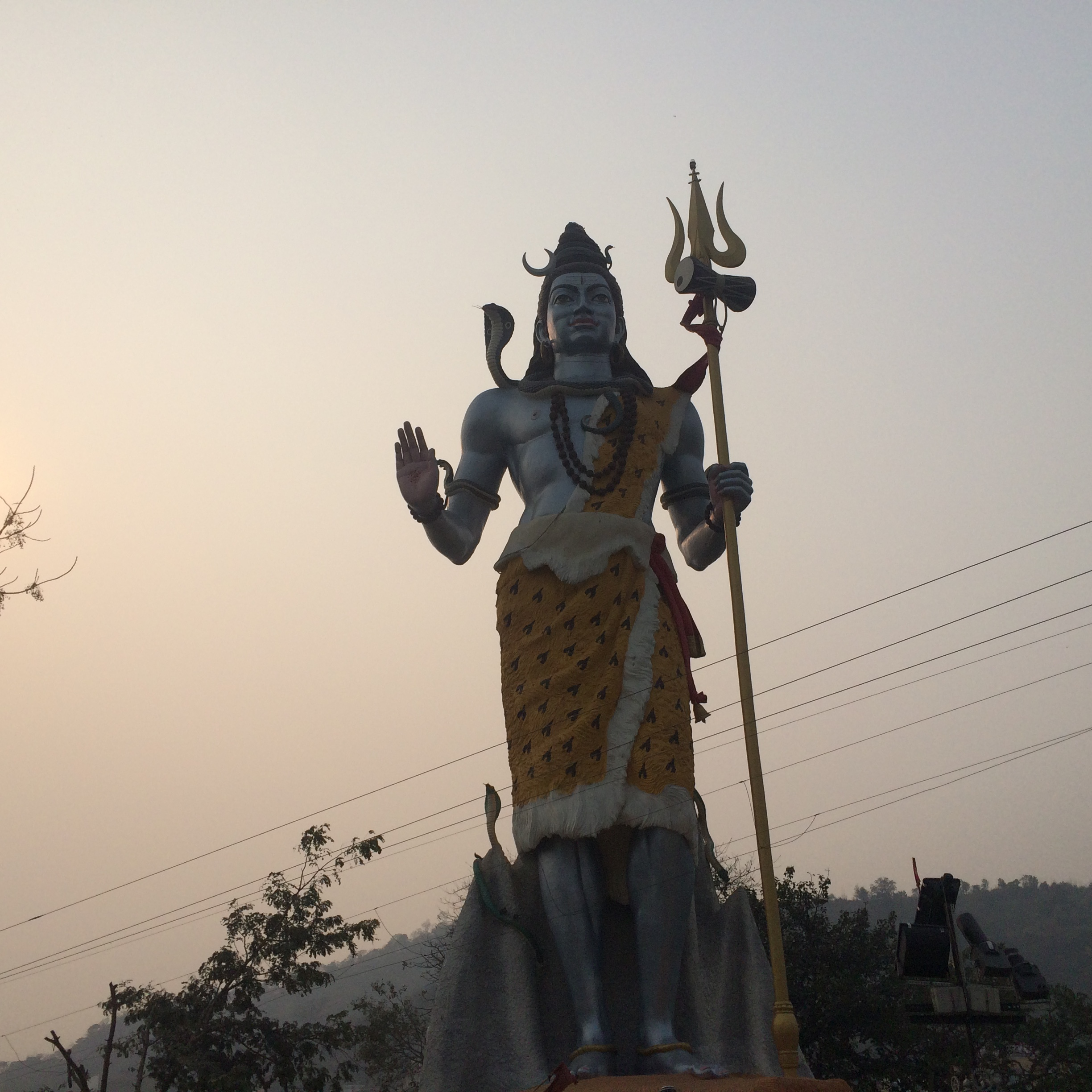 Statue of Shiva at Haridwar.